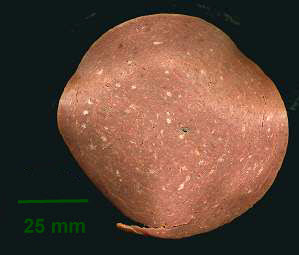 Chipped beef slice Image copyright ©2005 by Daniel P. B. Smith and dual-licensed by Daniel P. B. Smith as shown below